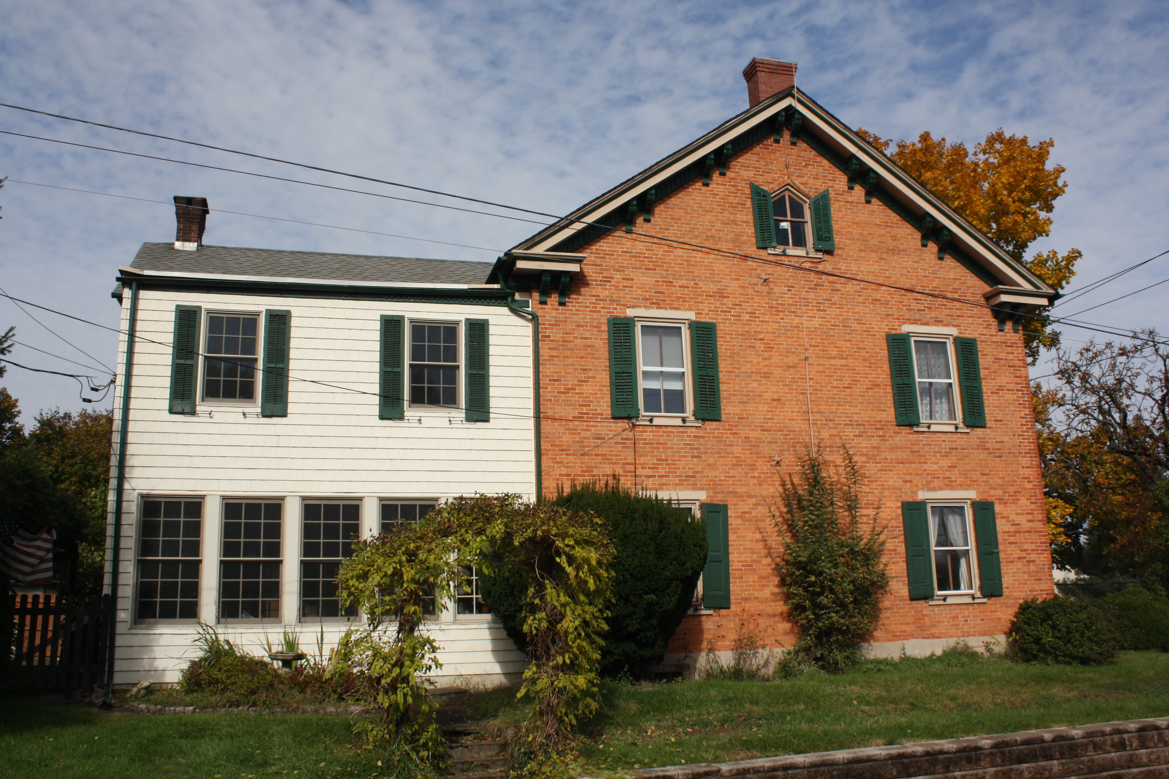 Spinner House is a historic home (built about 1860) located at Spinnerstown, Bucks County, Pennsylvania. Spinnerstown and Sleepy Hollow Rds. Object location40° 26′ 20″ N, 75° 26′ 16″ W